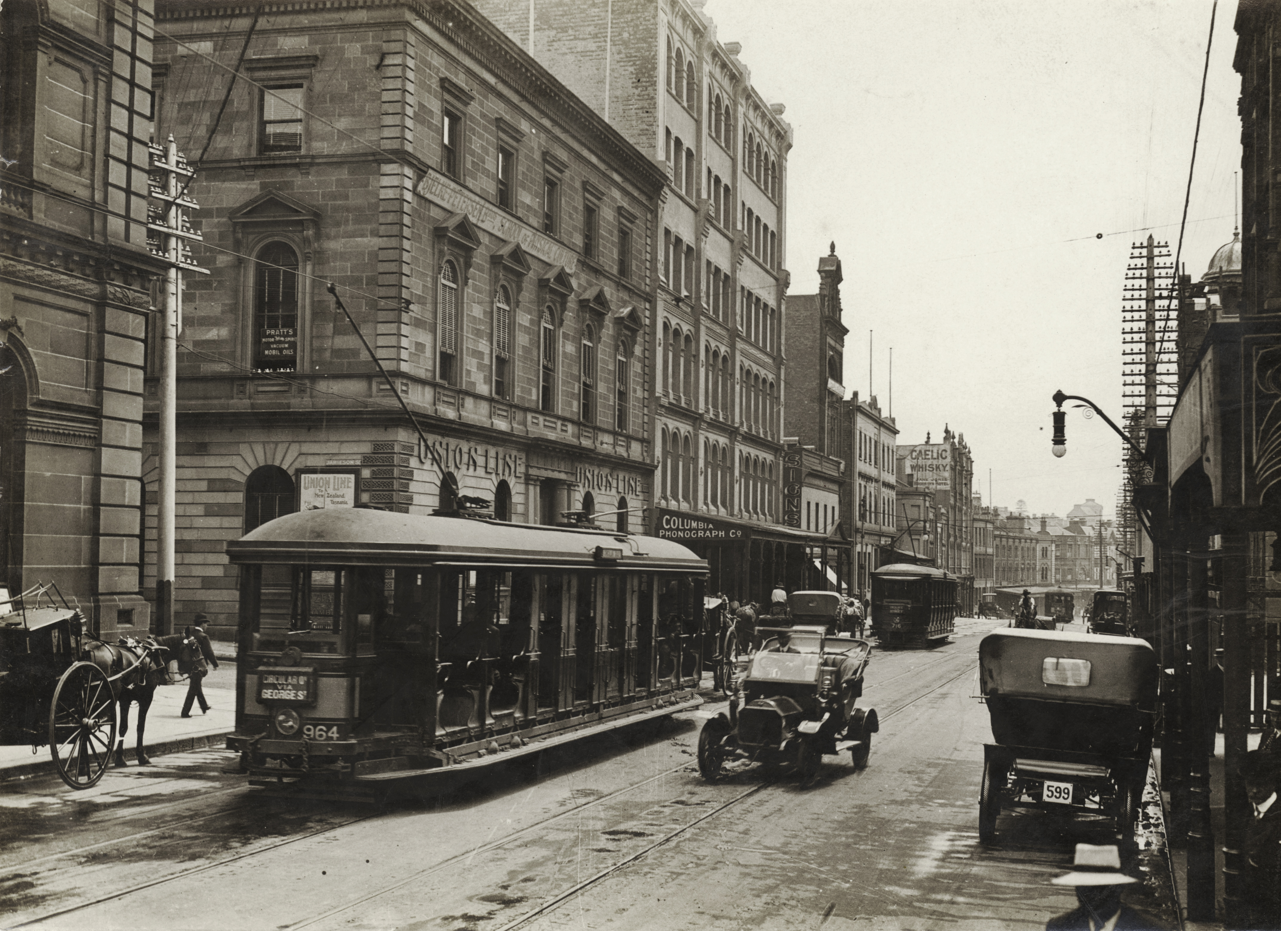 Format: Photograph Find more detailed information about this photographic collection: .au/item/itemDetailPaged.aspx?itemID=153431 Search for more great images in the State Library's collections: .au/search/SimpleSearch.aspx From the collection of the State Library of New South Wales